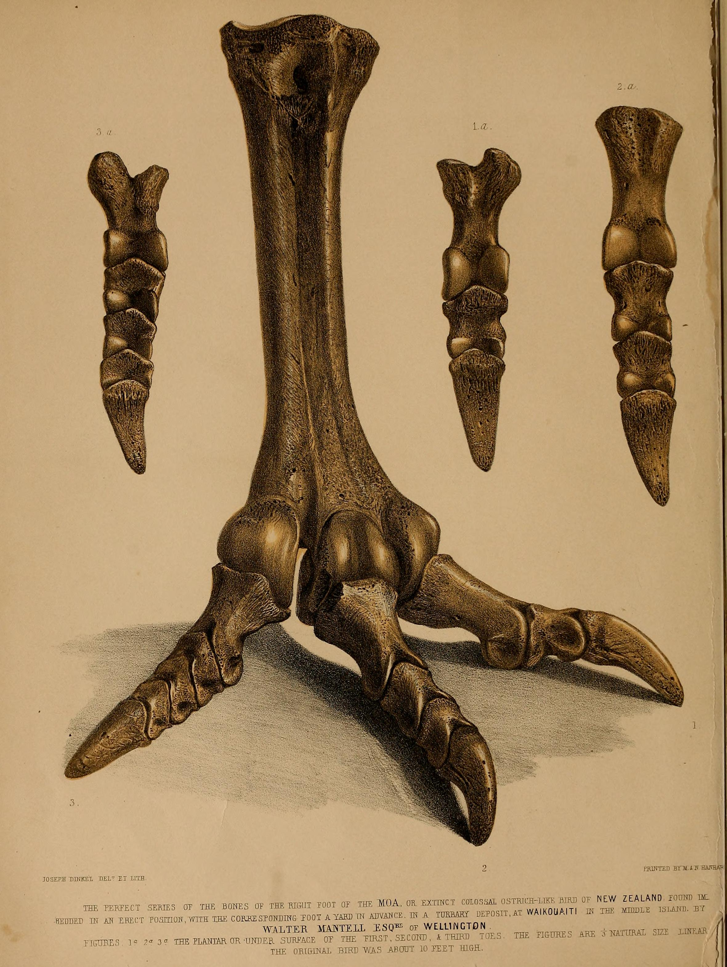 A pictorial atlas of fossil remains : consisting of coloured illustrations selected from Parkinson's "Organic remains of a former world," and Artis's "Antediluvian phytology" / with descriptions by Gideon Algernon Mantell.